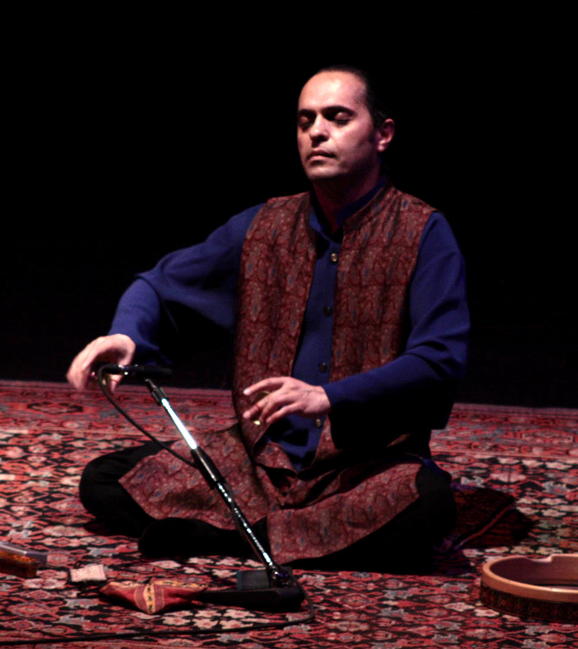 majid khalaj tombak player مختصات دوربین۳۵° ۴۱′ ۴۶″ N, ۵۱° ۲۵′ ۲۳″ E محل قرارگیری این نگاره و سایر نگاره‌ها در: نقشهٔ شهری باز - گوگل ارت